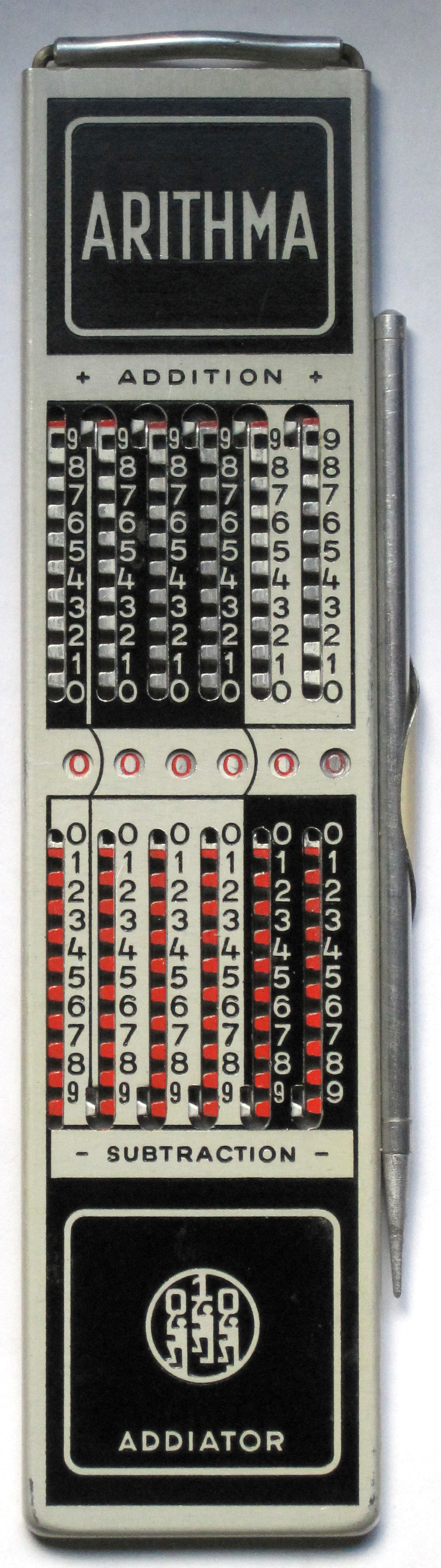 An Arithma Addiator manufactured near the end of the period they were produced.